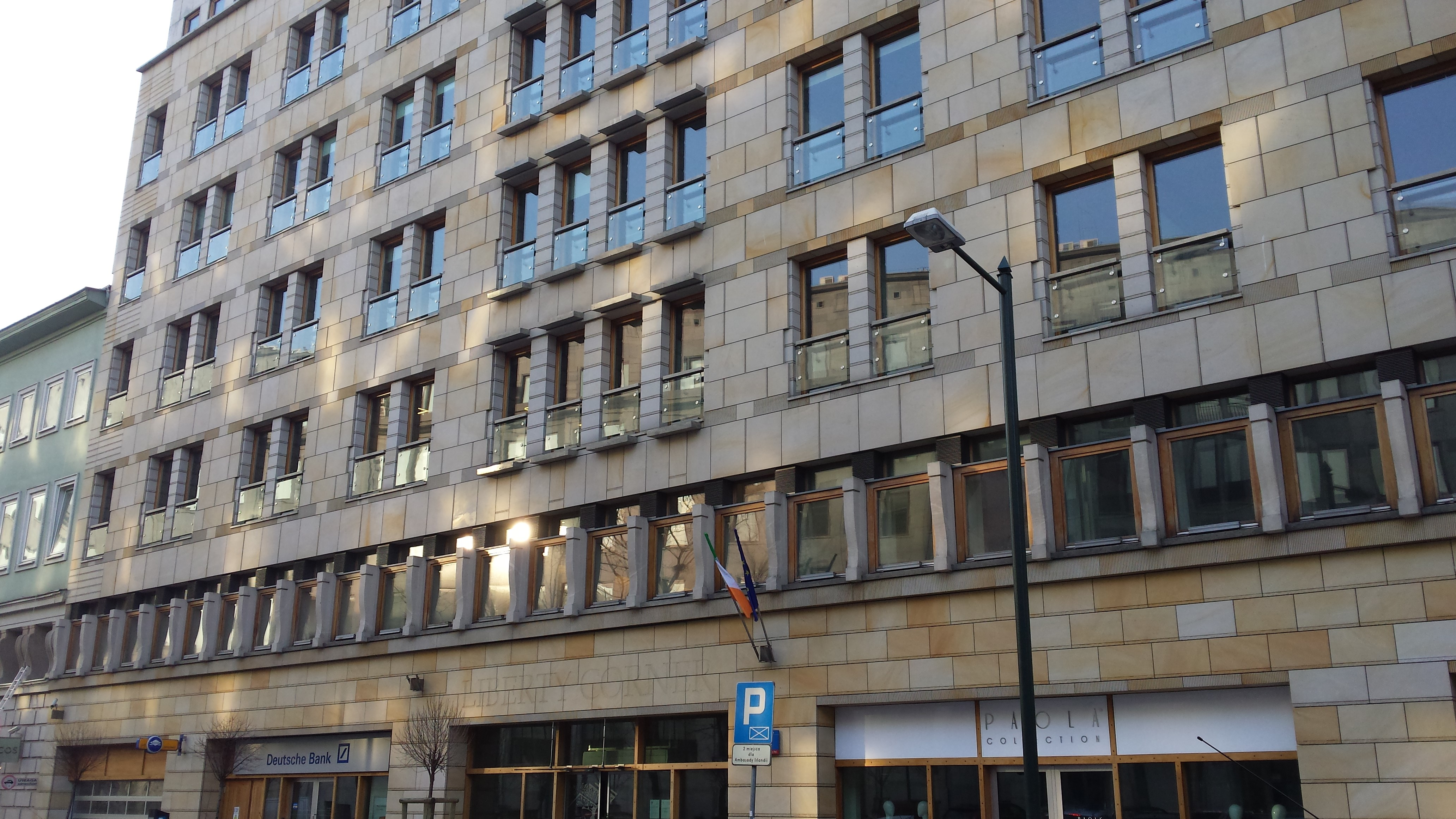 Embassy of Ireland in Warsaw